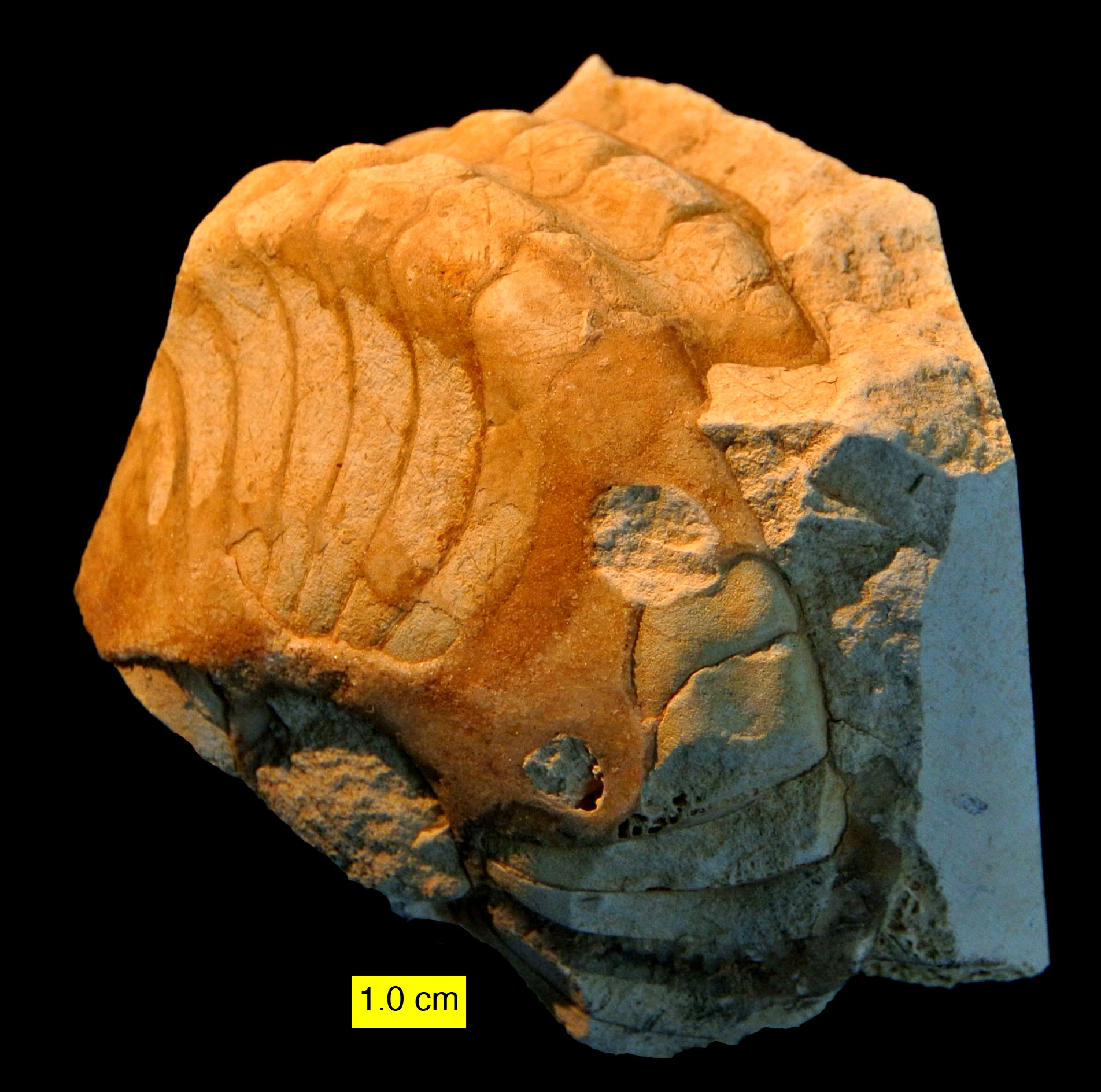 Despite the file name, this is Paracenoceras Spath, 1927 from the Matmor Formation (Middle Jurassic, Callovian) of Hamakhtesh Hagadol, southern Israel.